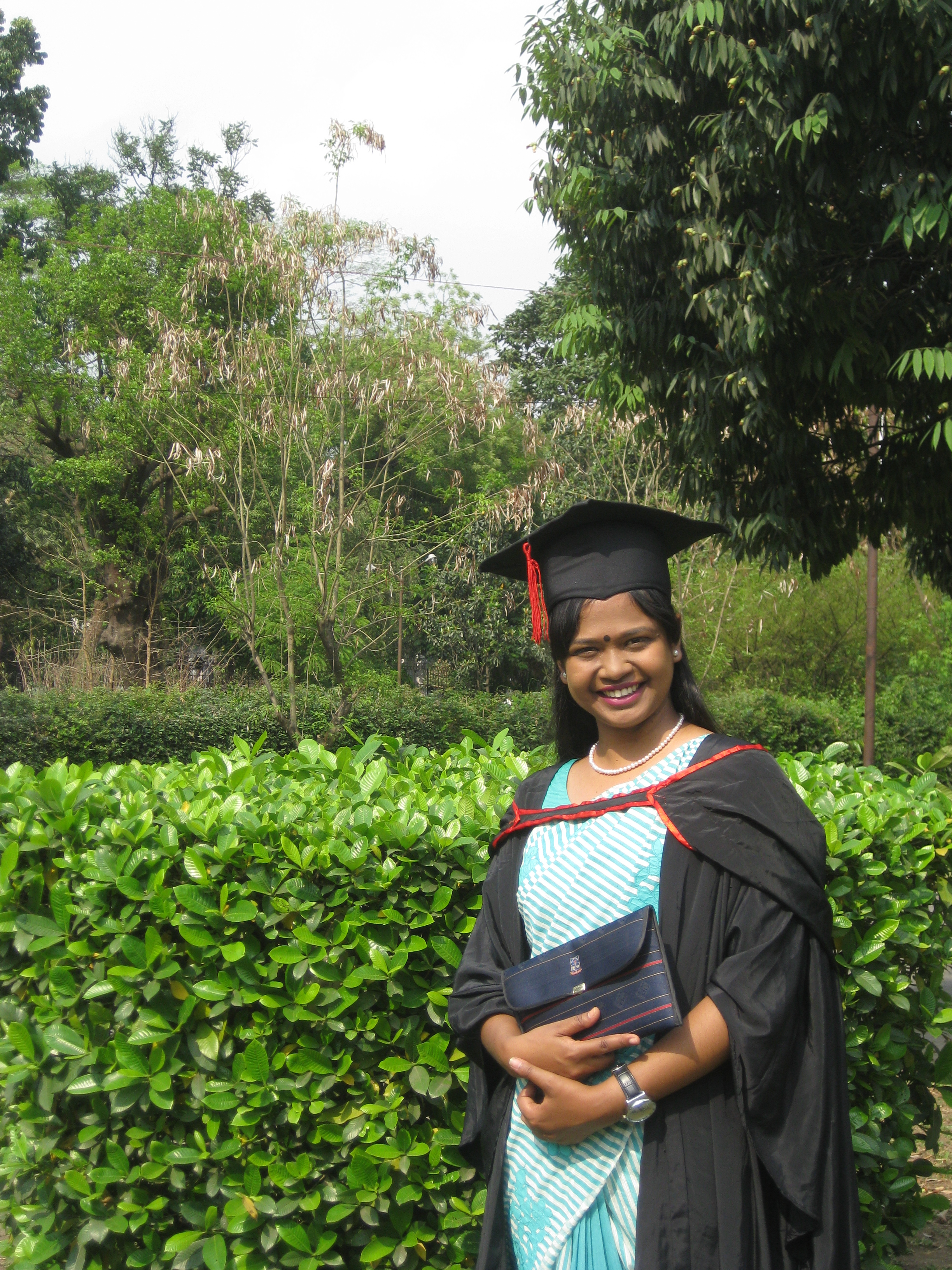 48th Convocation dress of University of Dhaka with hood, gown and cap for social science worn by Afifa Afrin